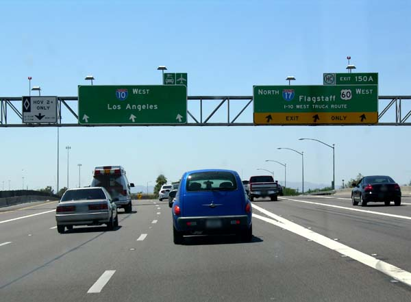 Interstate 17 southern terminus at Interstate 10 westbound in Phoenix, Arizona.